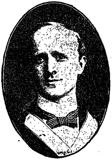 John MacKean McLaughlan, a prominent figure in the Independent Labour Party, later elected to Manchester City Council